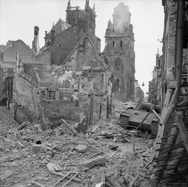 The British Army in Normandy 1944 A German Panther tank lies among the ruins of Argentan, 21 August 1944.